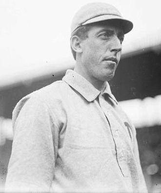 Eddie Plank of the Philadelphia Athletics at South Side Park.